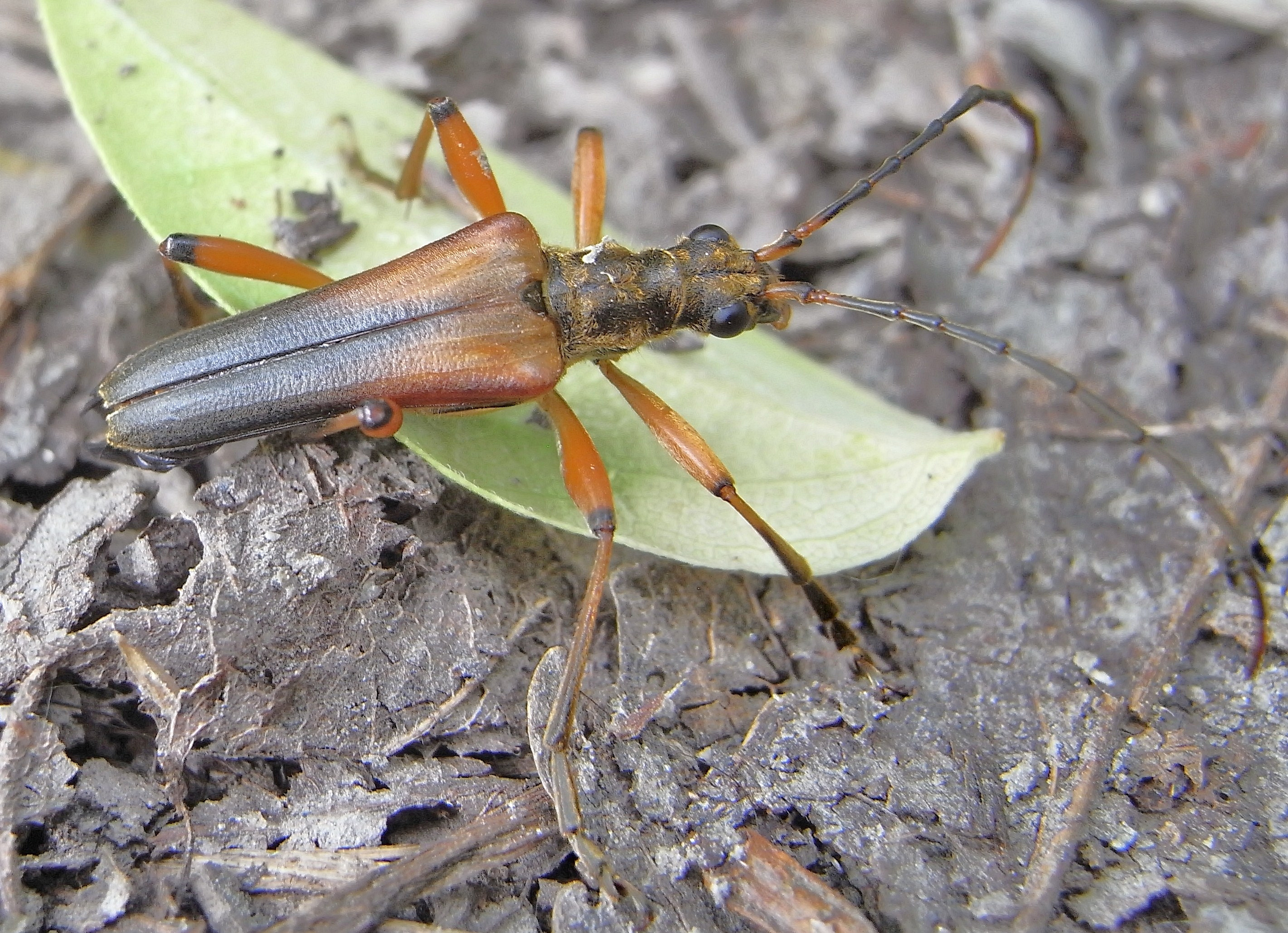 Stenocorus meridianus from Hungary, photographed at 2010-07-01 Ricoh R8